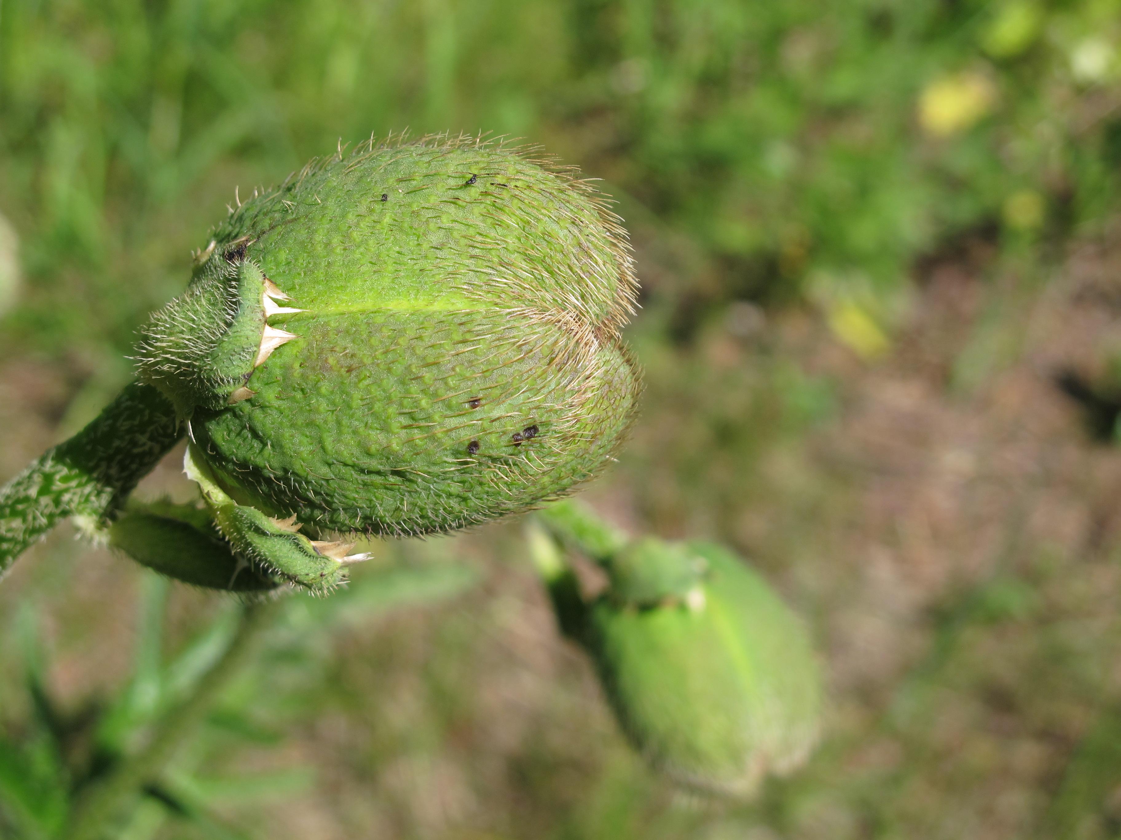 Oriental poppy (Papaver orientale) by a road near the Podsupraśl village, podlaskie, Poland